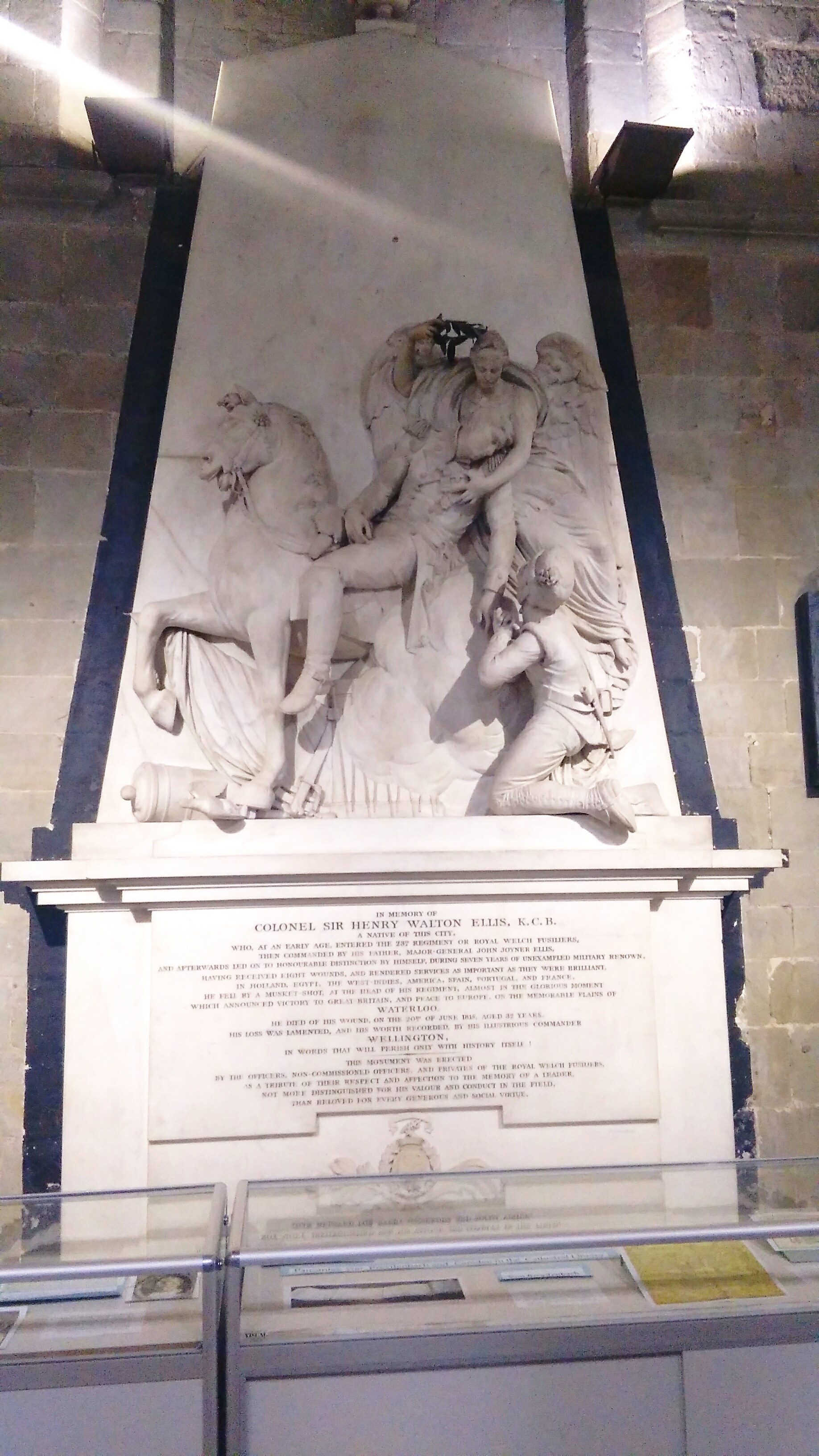 Henry Walton Ellis memorial at Worcester Cathedral. Colonel Sir Henry Walton Ellis, KCB was a British soldier in the Napoleonic Wars. He died following wounds received at the Battle of Waterloo. The sculpture is by John Bacon (1777–1859).